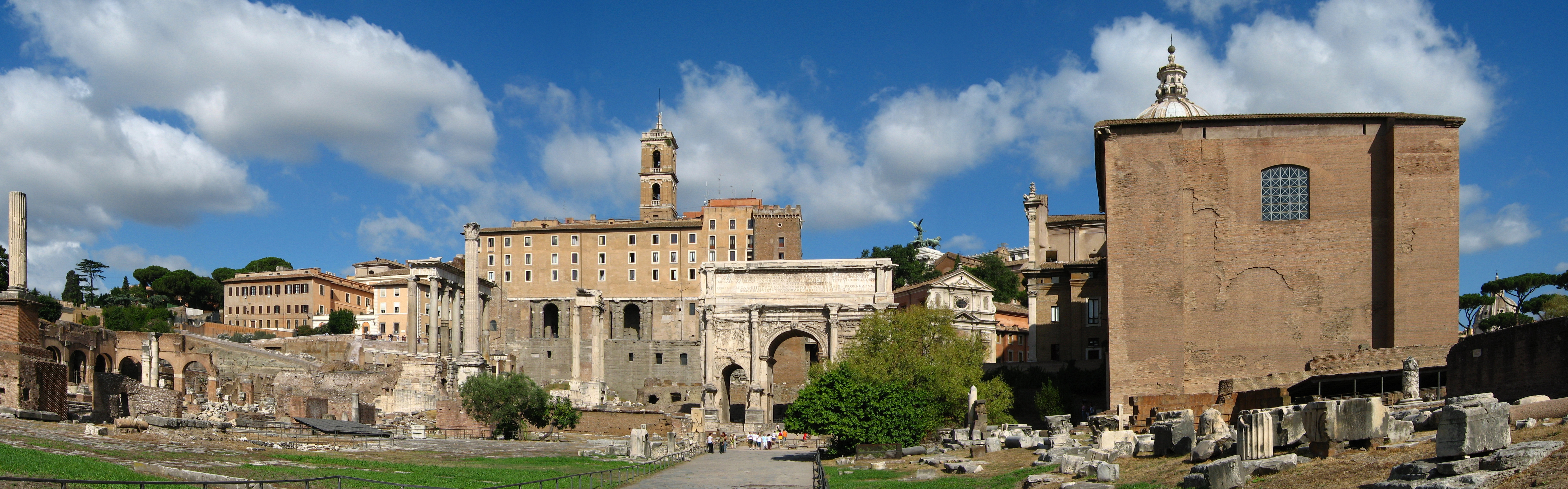 Roman Forum, Rome. The Arch of Septimius Severus stands near the centre of this image. The reconstructed Curia Julia is the large building on the right.